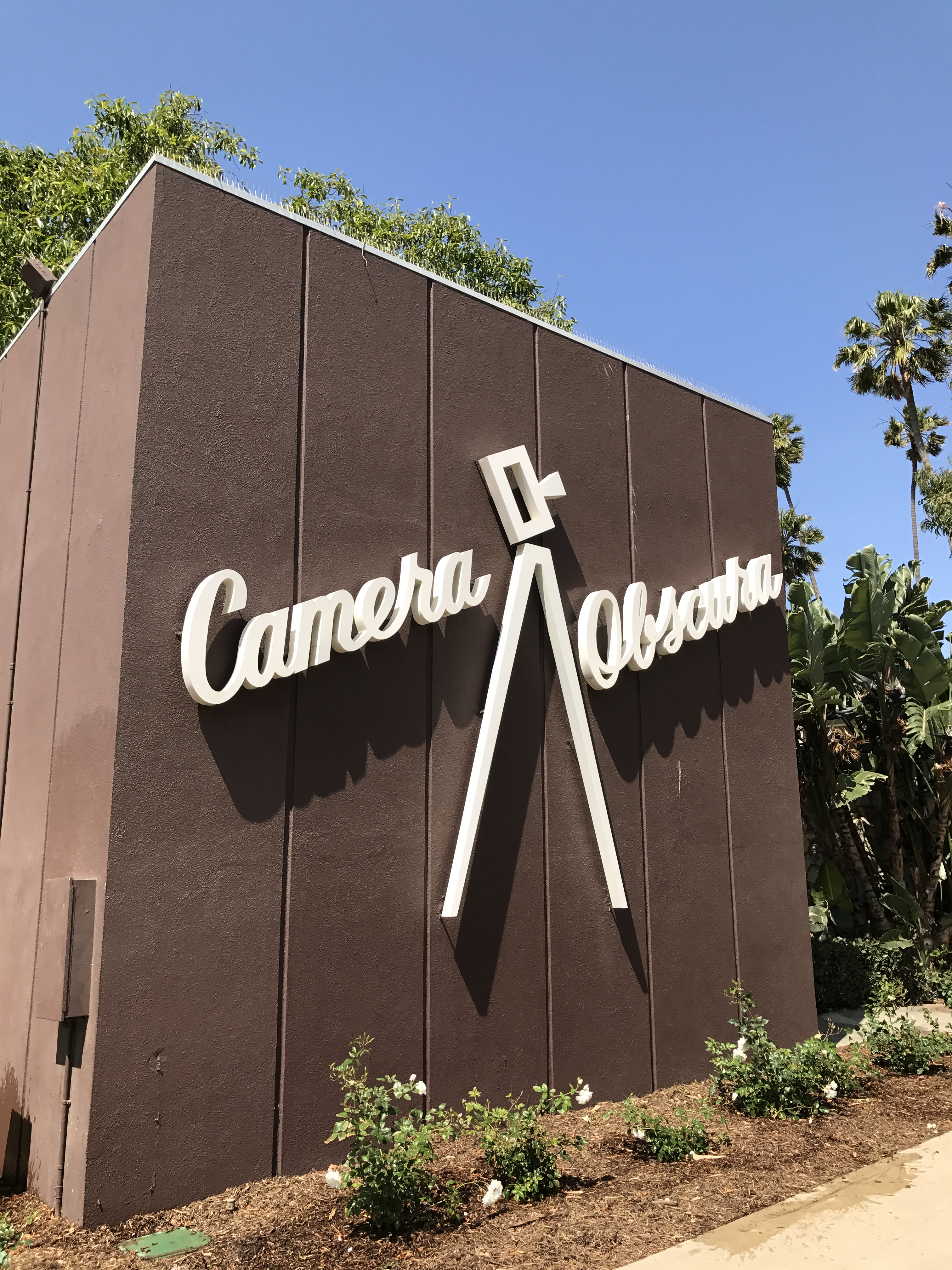 Camera Obscura Art Lab1450 Ocean Ave.Palisades ParkSanta Monica, CA 90401